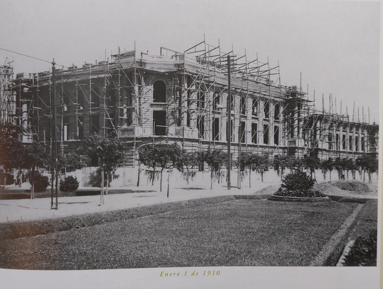 Imagen Antigua de la fachada realizada por los arquitectos originales